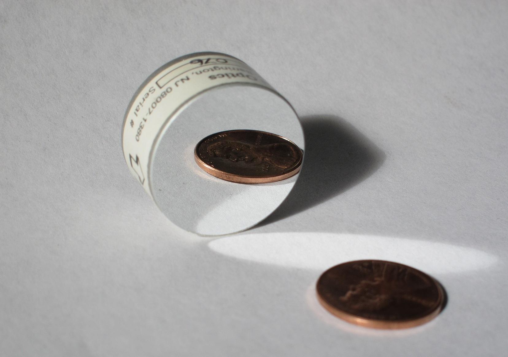 An optical flat that has been coated with aluminum by vacuum deposition, to make a first-surface mirror. The coating is enhanced with dielectric coatings, both improving the reflectance and protecting the soft aluminum from damage. Both sides of the optical flat were certified to be polished to λ {\displaystyle \lambda } /20. That's 1/20 of the wavelength of the helium-neon laser used in the interferometer, which equates to a surface deviation of no more than 31.6 nanometers. The substrate is quartz, measuring 1 inch in diameter by 1/2 inch thick.